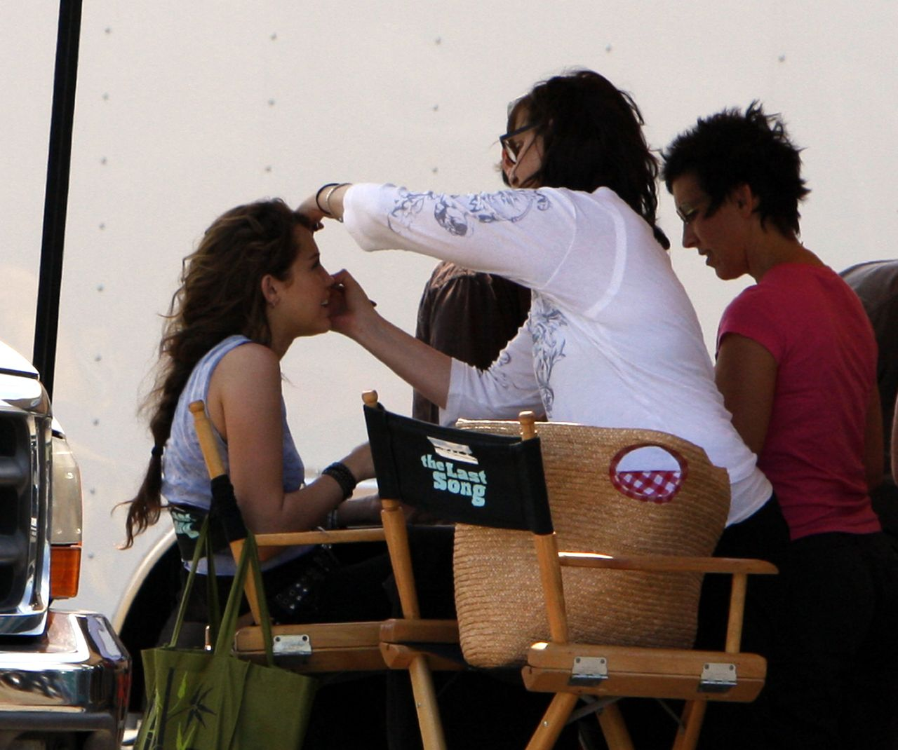 Miley Cyrus in make-up on the set of "The Last Song" at Tybee Beach, Savannah